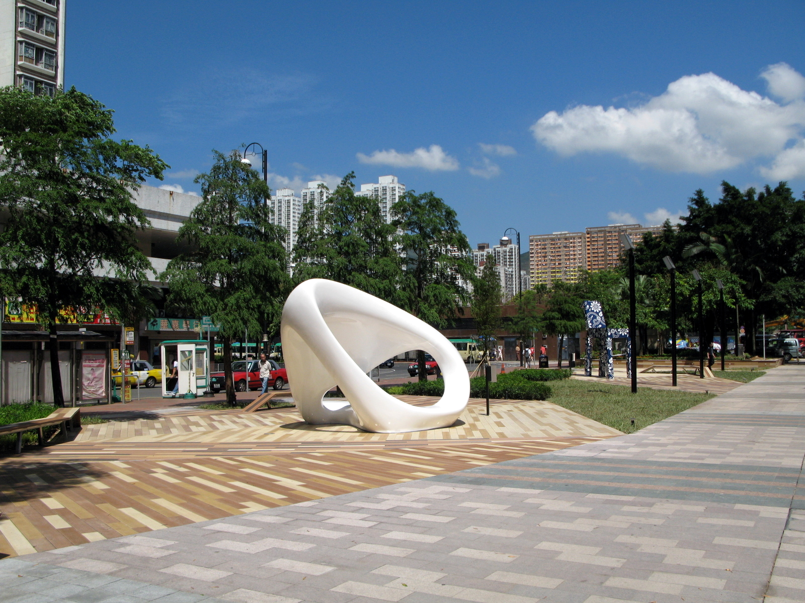 City Art Square Area 6 城市藝坊第六區